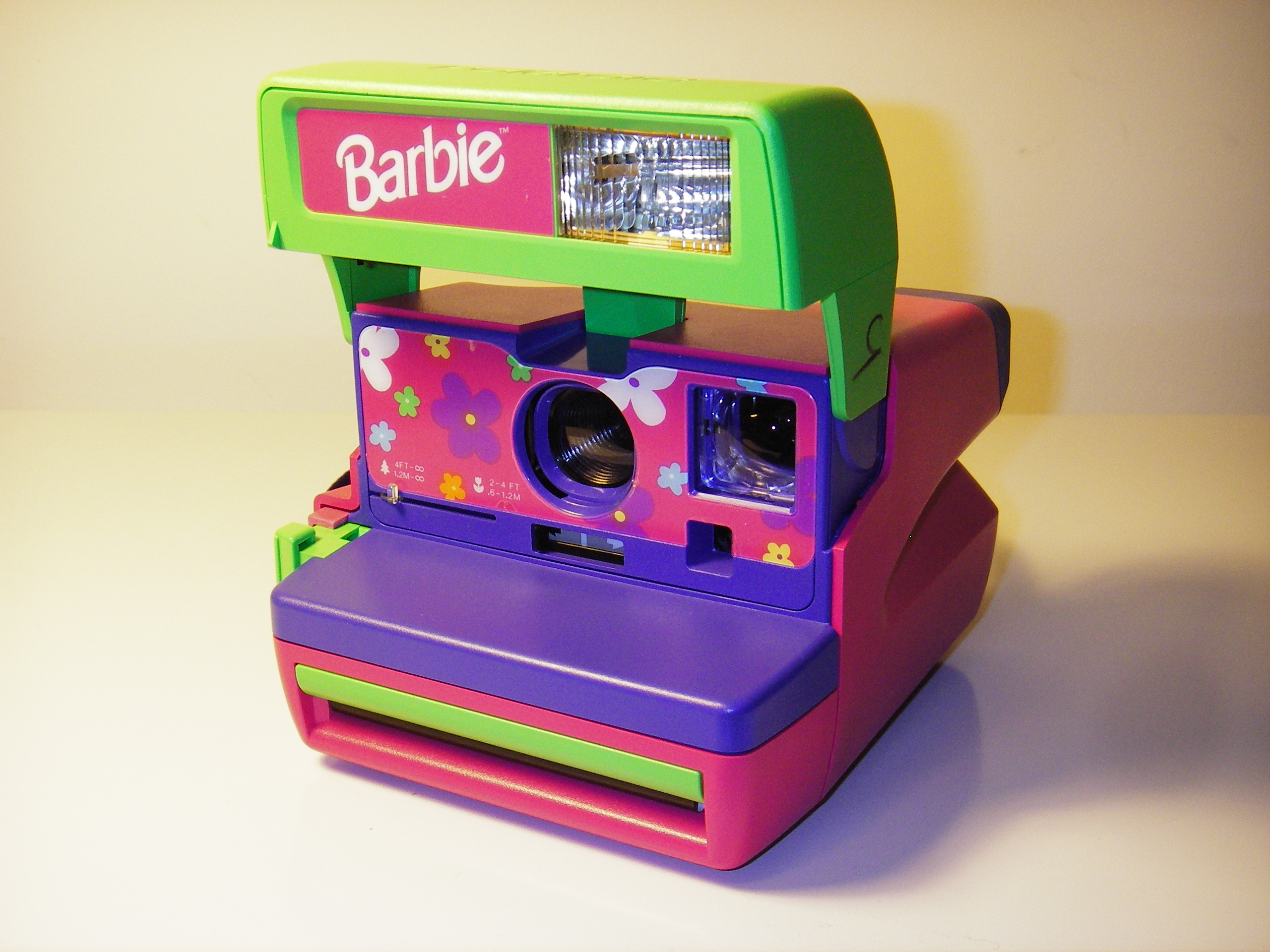 Polaroid Barbie Pink Instant 600 Film Camera.